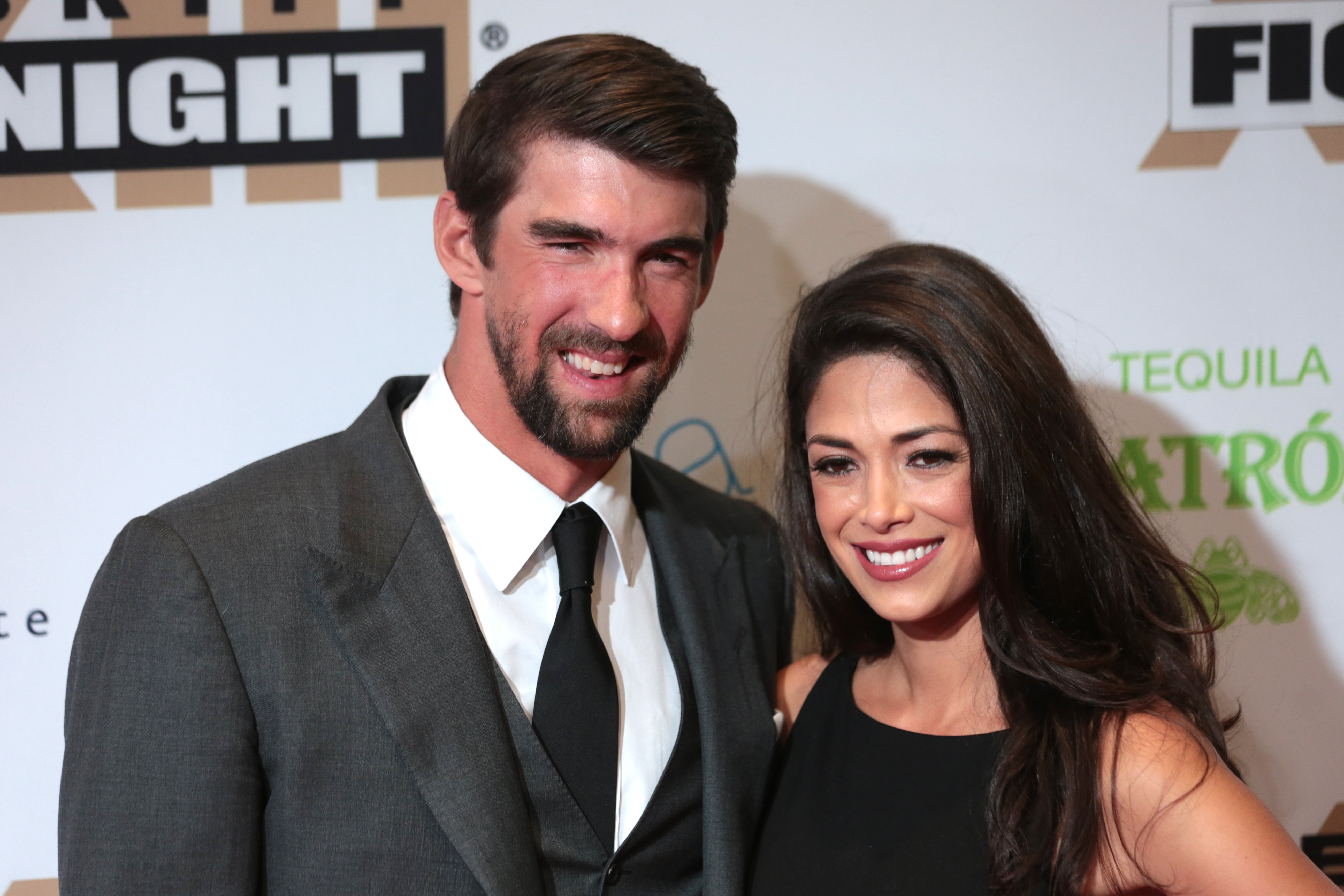 Michael Phelps and Nicole Johnson at Celebrity Fight Night XXIII in Phoenix, Arizona.